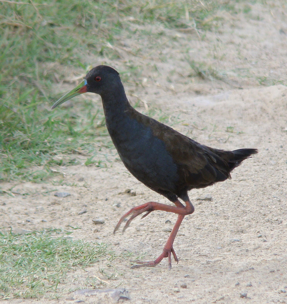 Plumbeous Rail in Dom Pedrito, Rio Grande do Sul, Brazil.